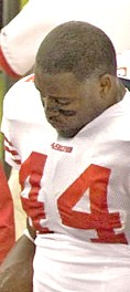 Mike Singletary, coach of San Francisco 49ers, plans a play with offensive line